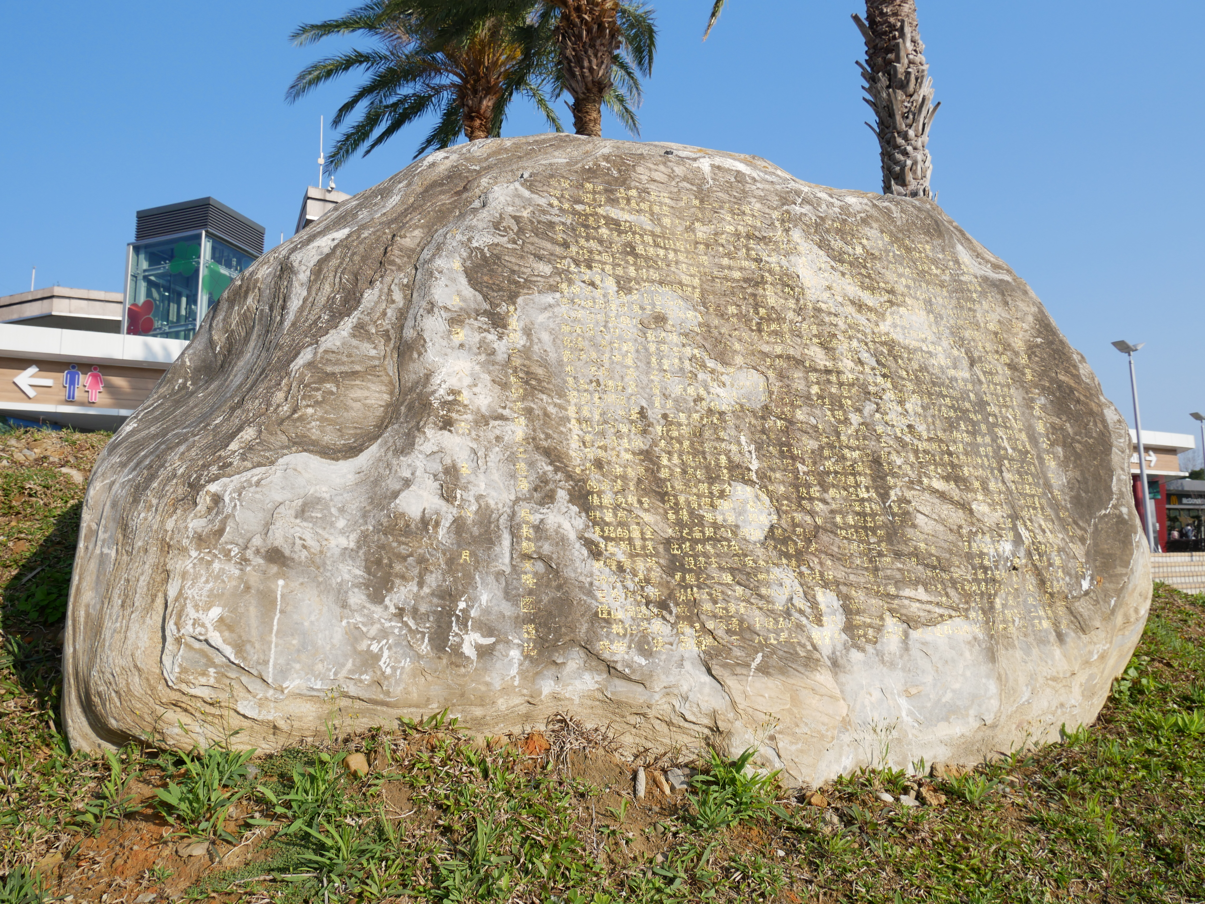 北部區域第二高速公路工程竣工紀要，新竹縣關西鎮東安里